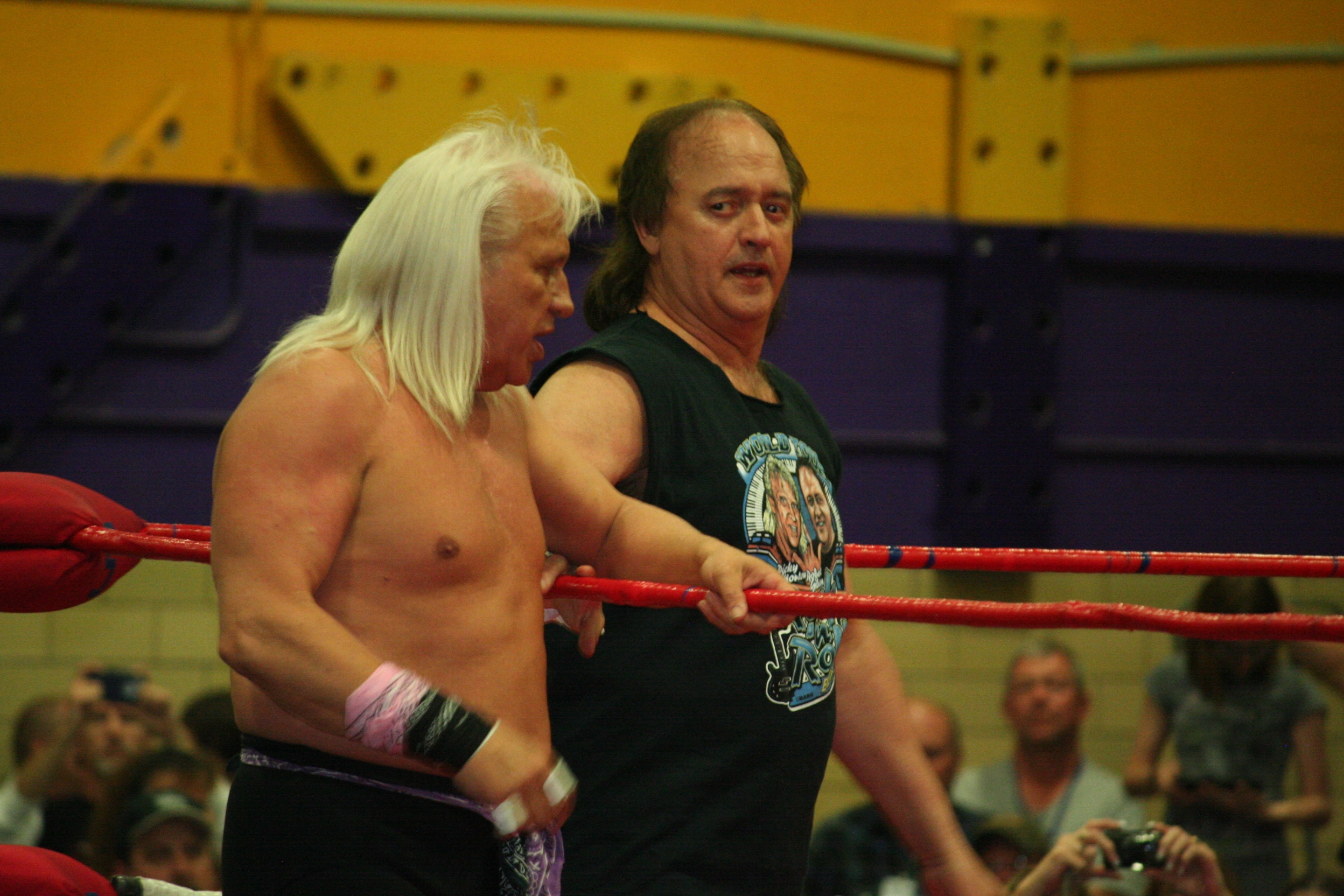 legendary tag team